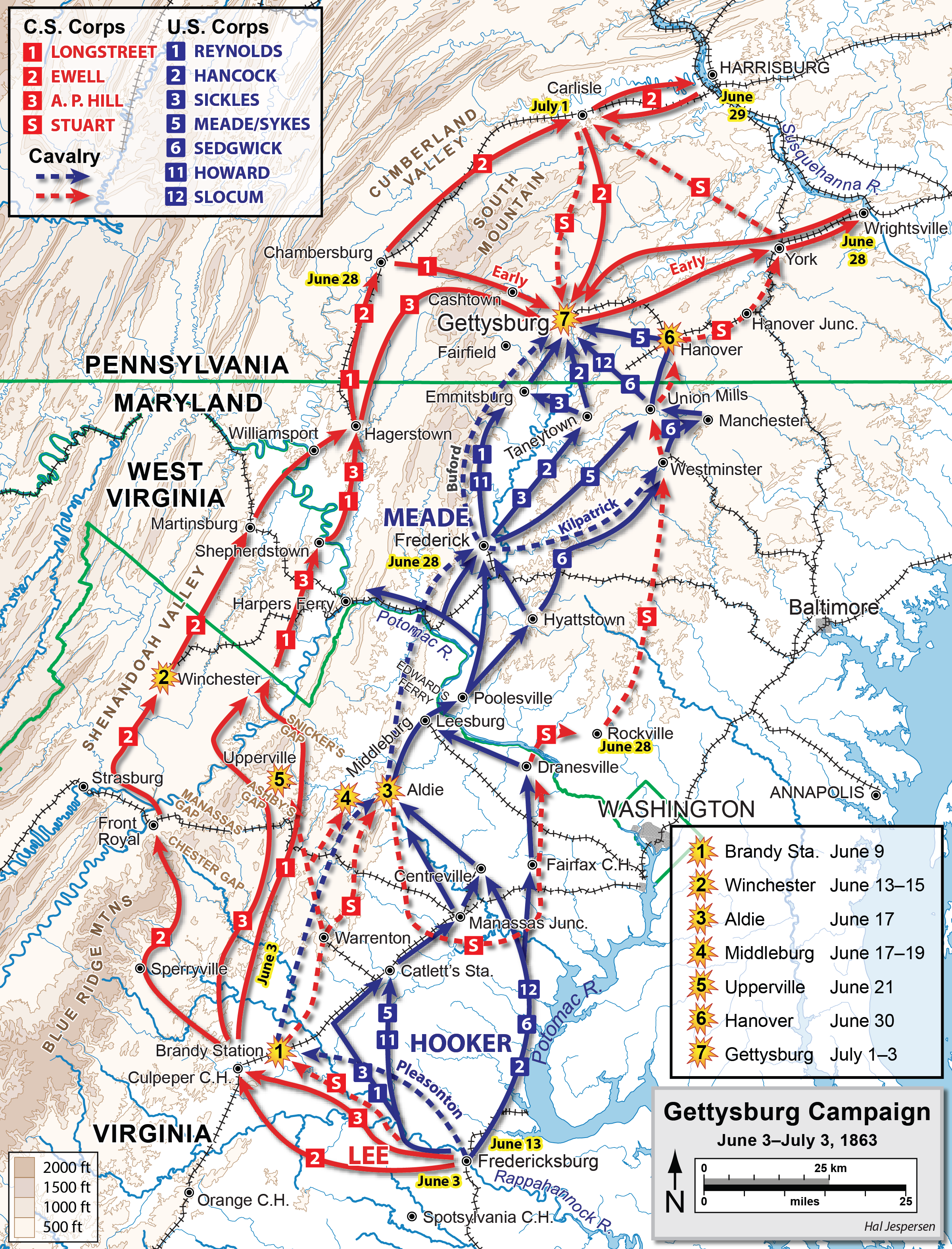 Map of the Gettysburg Campaign (up to July 3, 1863) of the American Civil War. Drawn by Hal Jespersen in Adobe Illustrator CS5. Graphic source file is available at